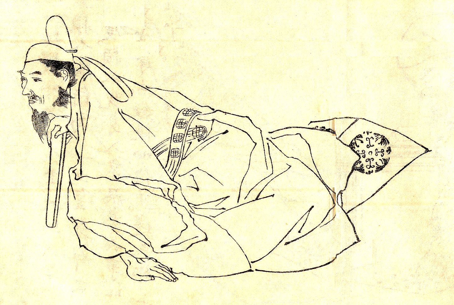 Fujiwara no Sonobito(藤原園人) was a japanese court noble and scholar in Heian period.